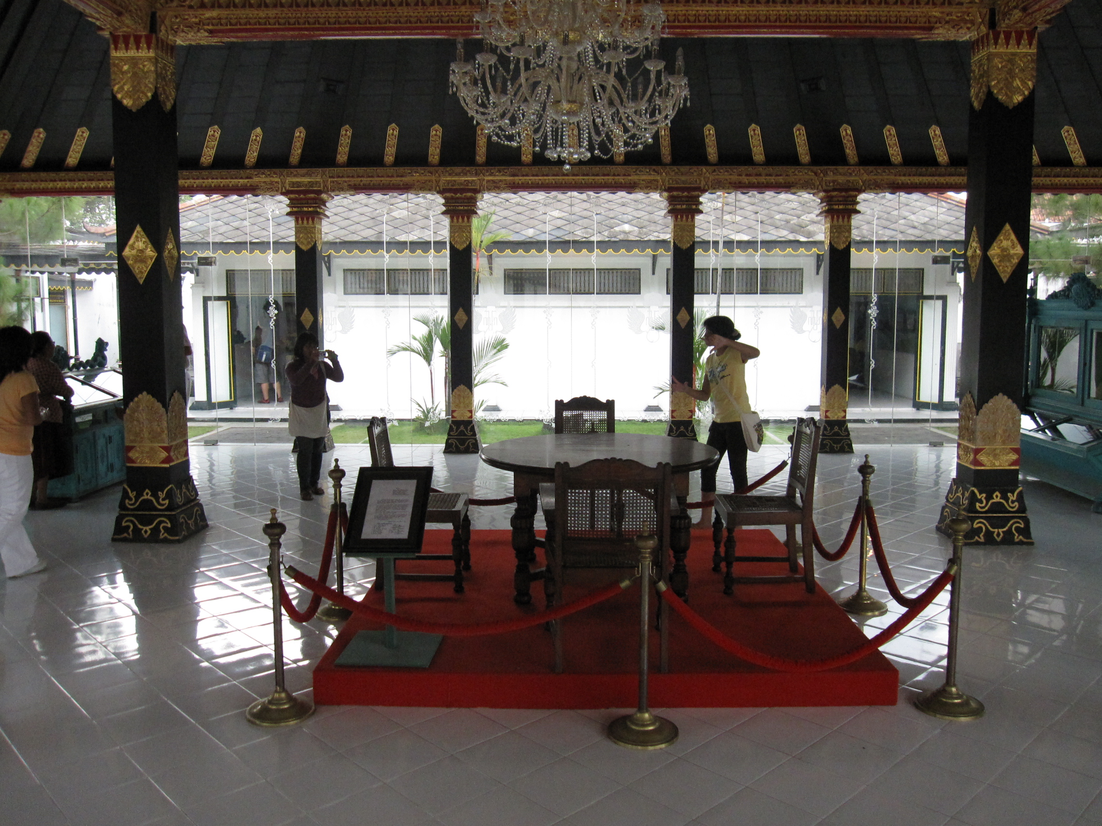 Kraton of Yogyakarta, Indonesia